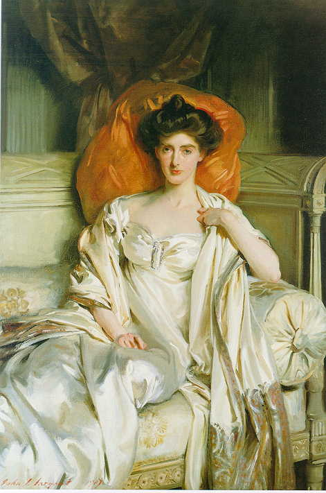 Mrs. Huth Jackson (nee Annabel Grant Duff) John Singer Sargent -- American painter 1907 Private Collection Oil on Canvas 145 X 97.5 cm. Signed and Dated lower left John S. Sargent, 1907 Jpg: Friend of the JSS Gallery